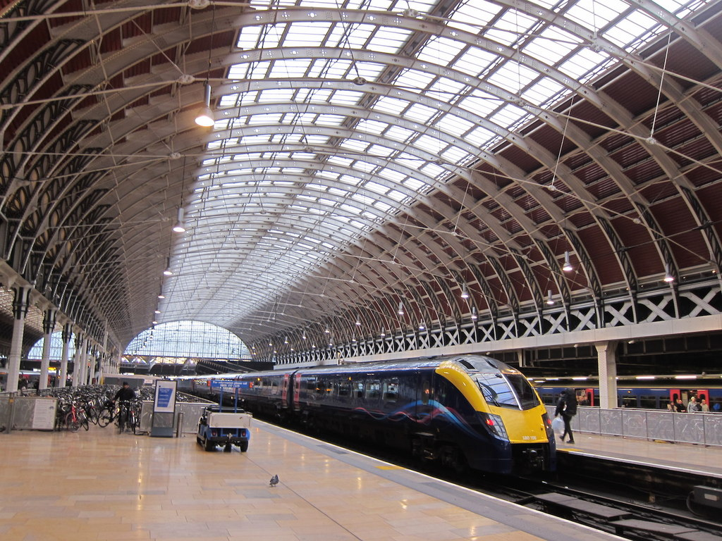 Paddington station, also known as London Paddington, is a central London railway terminus and London Underground station complex. The site is historic, having been the London terminus of the Great Western Railway and its successors since 1838. Much of the current mainline station dates from 1854 and was designed by Isambard Kingdom Brunel. The site was first served by Underground trains in 1863, as the original western terminus of the Metropolitan Railway, the world's first underground railway. The complex has since been modernised and now has an additional role as the London terminus for the dedicated Heathrow Express airport service. Paddington is in fare zone 1. The station is the terminus for services from Reading, Bristol, Cardiff, Swansea, Oxford, Newbury, Taunton, Exeter, Plymouth, Penzance, Cheltenham, Worcester and Hereford, and for inner- and outer-suburban services.